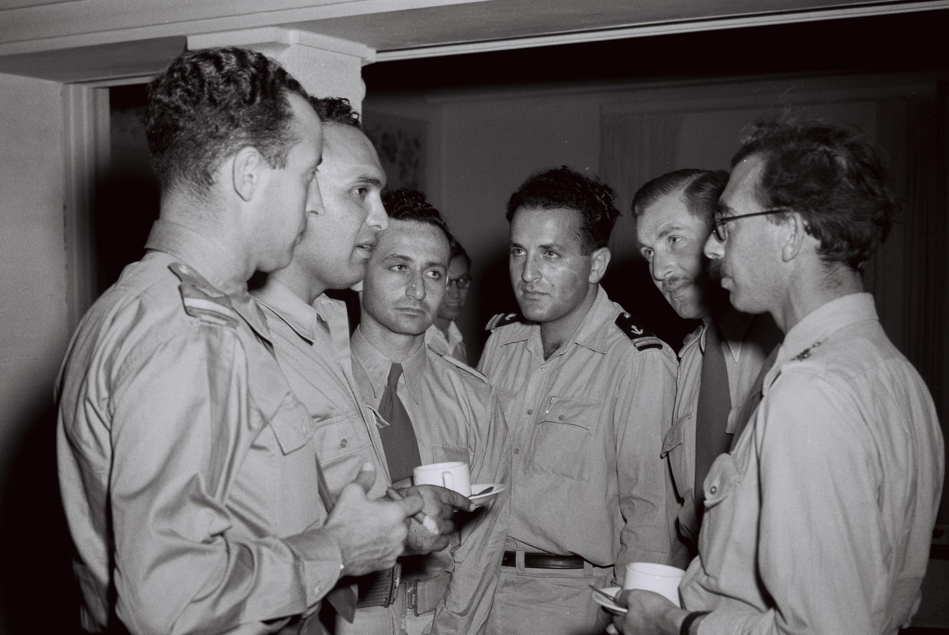 Israeli officers attending capt. Ballantynes farewell party, l. tor. : maj. Reisman, iaf, col. Azaryahu, maj. Harkabi, Zeev Hayam, Haim Herzog & col. Moshe Perlman.